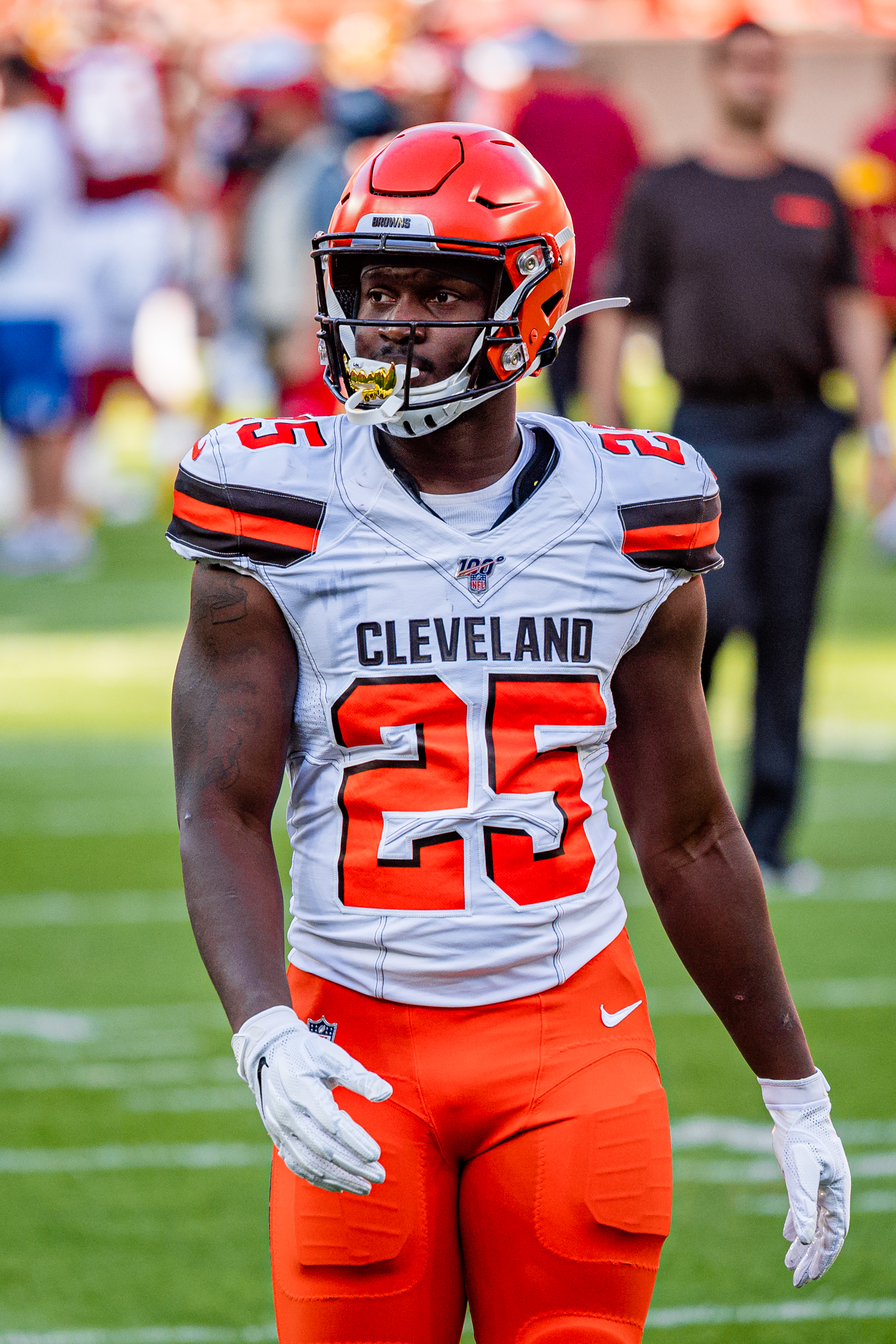 Cleveland Browns running back, Dontrell Hilliard, during a preseason game against the Washington Redskins on August 8, 2019.